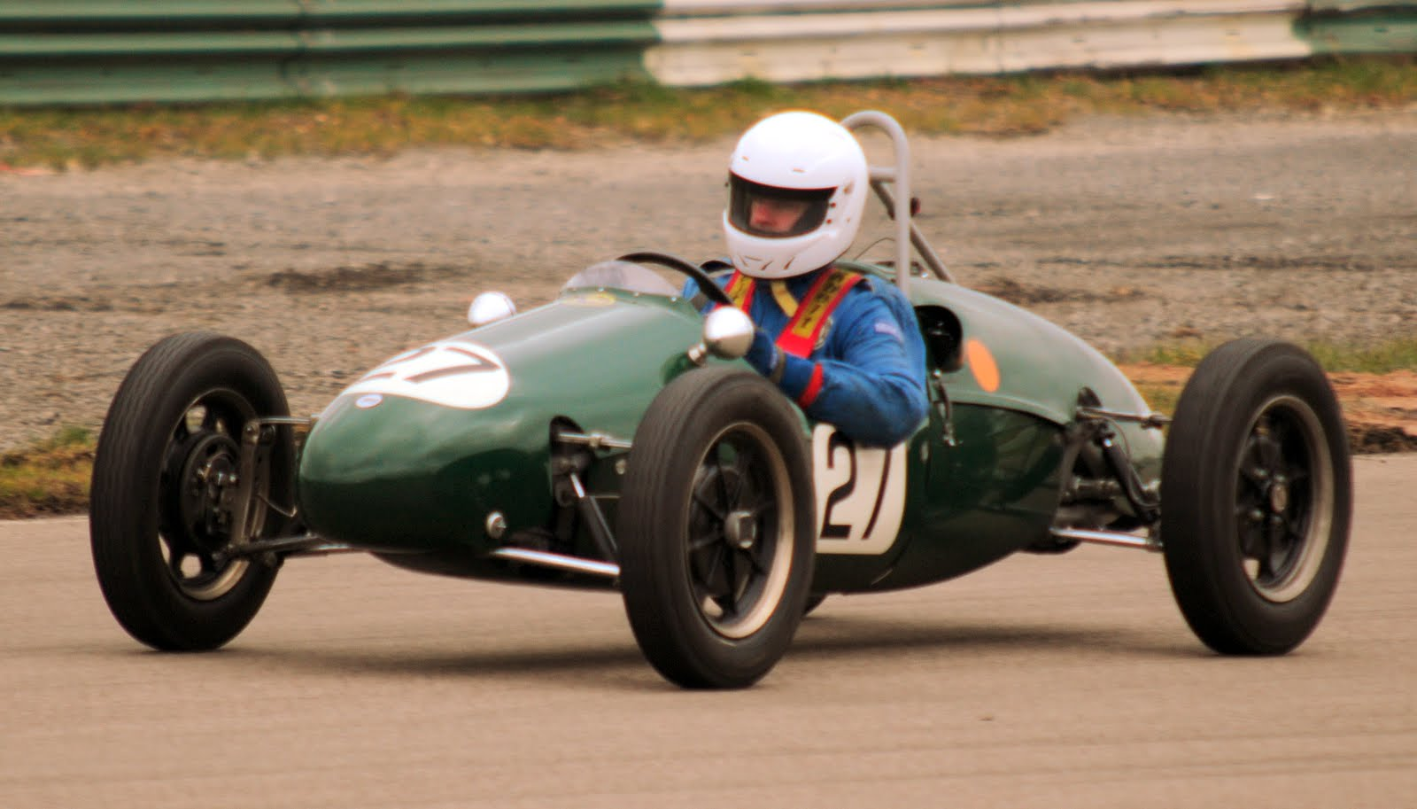 A Cooper 500 Formula Three car, on test at Mallory Park, March 2010.